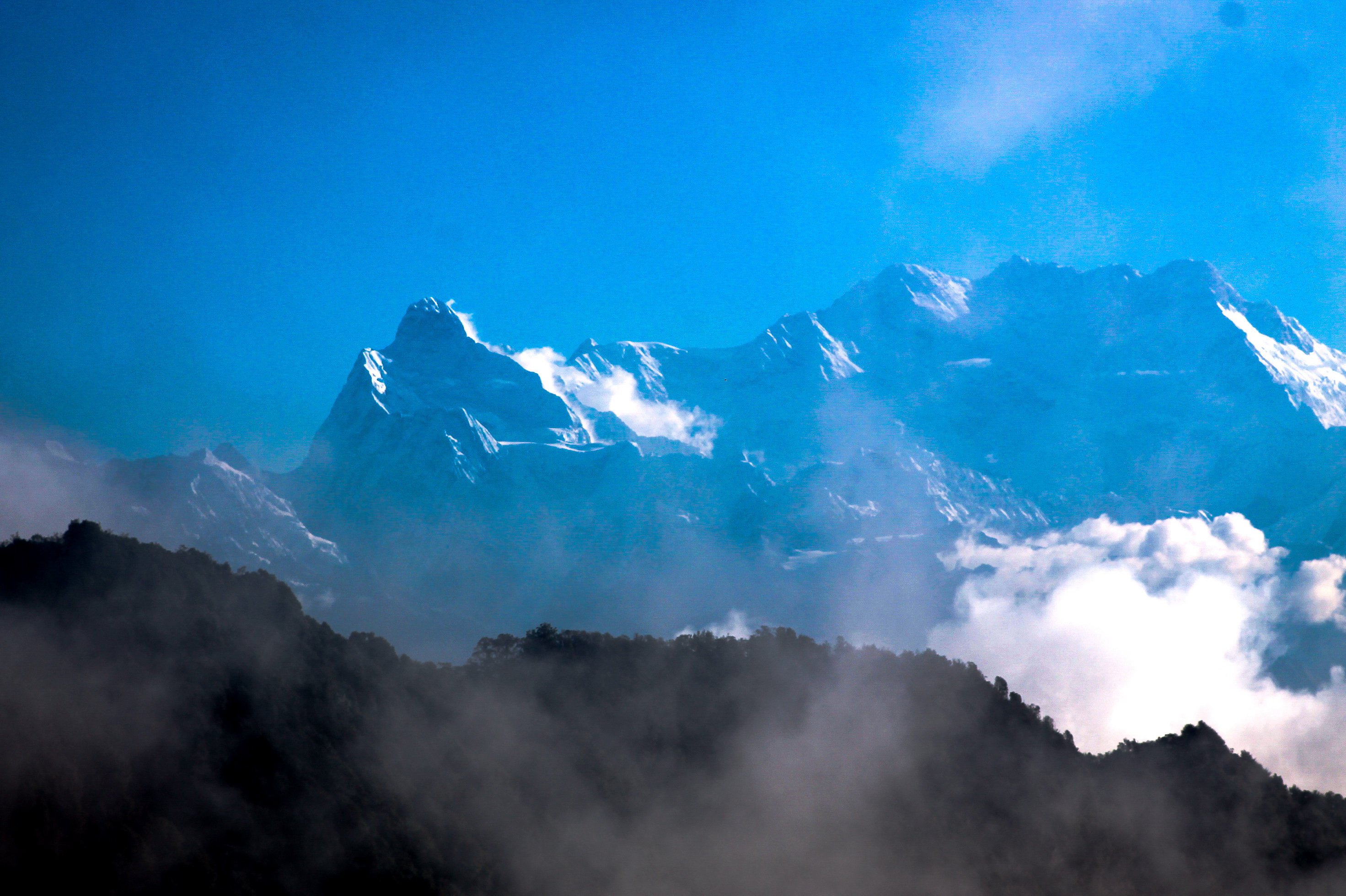 Mt. Makalu viewed form Guphapokhari.